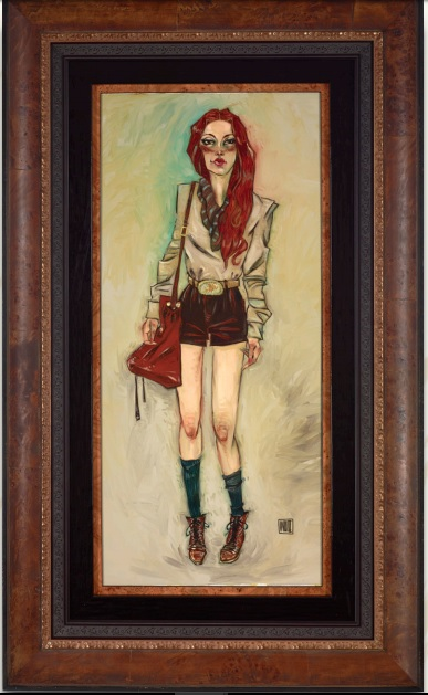 Oil on canvas by Todd White, dubbed "The World's Coolest Artist"